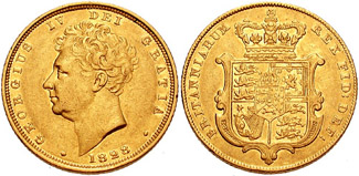 George IV of the United Kingdom. 1820-1830. AV Sovereign (7.94 g). Dated 1828. GEORGIUS IV DEI GRATIA, 1828, laureate head left BRITANNIARUM REX FID: DEF:, crowned coat-of-arms on scroll. Marsh 13; SCBC 3801; Friedberg 377b; KM 696. VF.